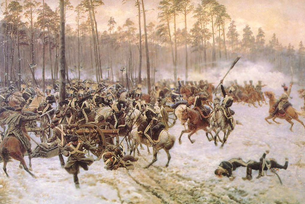 Battle of Stoczek 1831 (fragment)